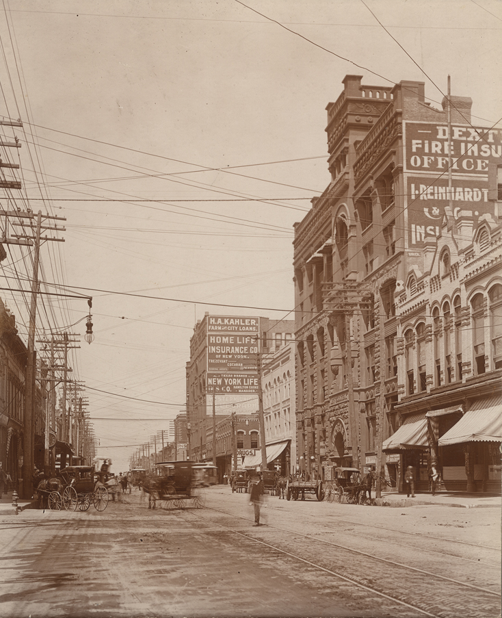 Title: [Main Street from the Main and Martin Street Intersection] Creator: Unknown Date: ca. 1900 Series: Series 3: Photographs; Series 3, Subseries 5, Locations; Series 3, Subseries 5a, Dallas city views Part of: George W. Cook Dallas/Texas image collection Place: Dallas, Dallas County, Texas Description: Photograph of Main Street, taken from the intersection of Main and Martin Street, facing West toward the Trinity River. Physical Description: 1 photograph: gelatin silver; 23.6 x 19.4 cm on 25.3 x 20 cm mount File: a2014_0020_3_5_a_0003_street_opt.jpg Rights: Please cite Southern Methodist University, Central University Libraries, DeGolyer Library when using this image file. A high-quality version of this file may be obtained for a fee by contacting . For more information and to view the image in high resolution, see: View the George W. Cook Dallas/Texas Image Collection